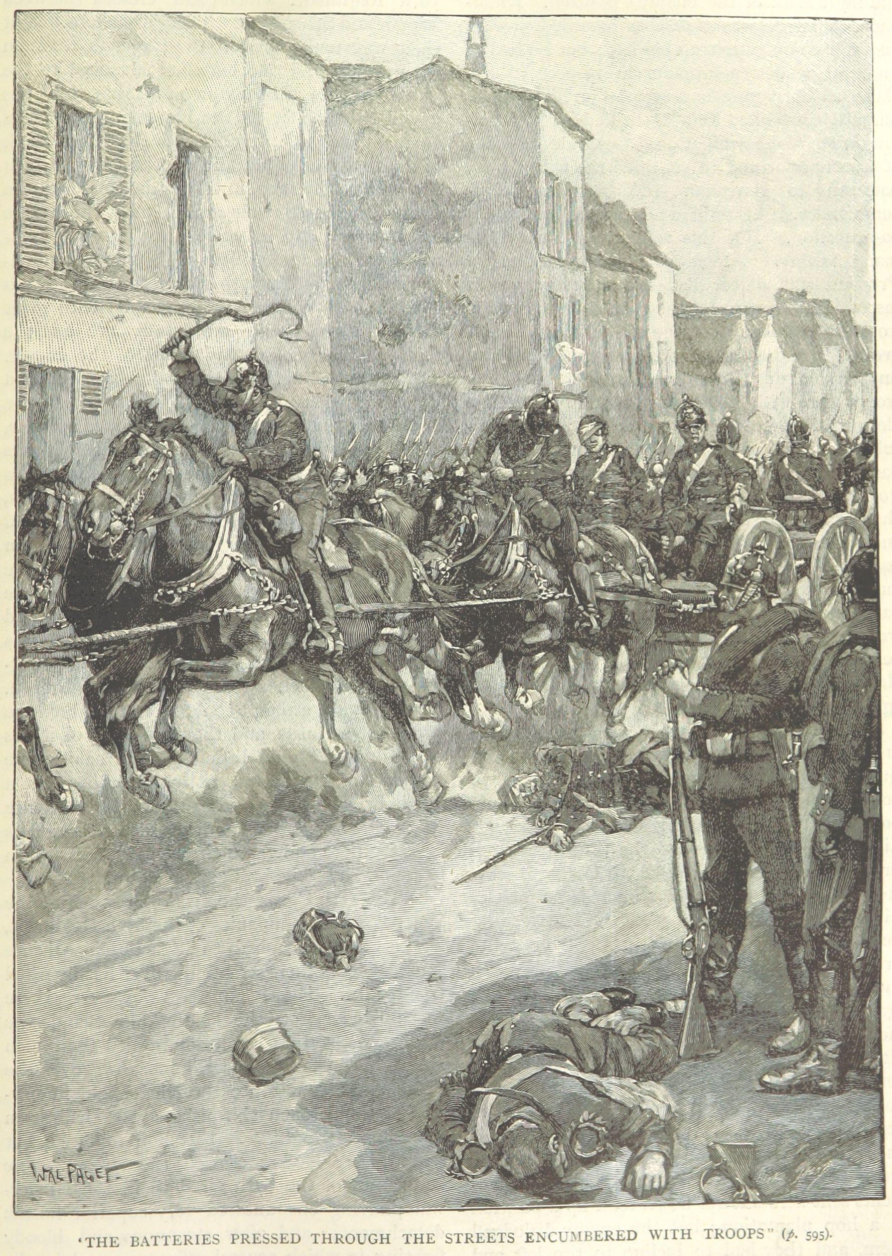 This drawing depicts General Kirchbach's V Corps artillery advancing during the Battle of Wörth.